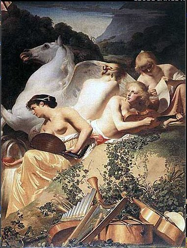 Four Muses